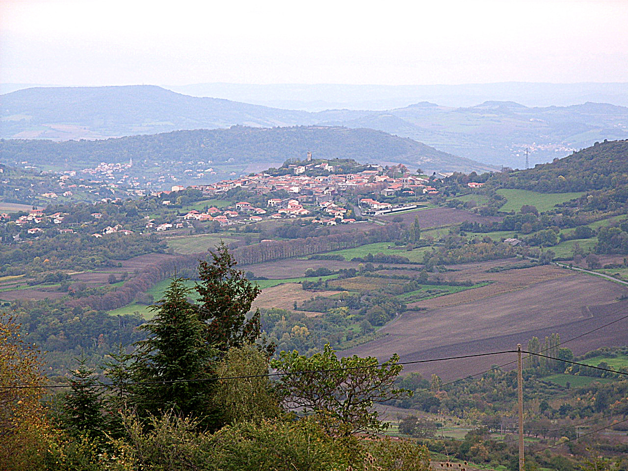 Le Crest (Puy-de-Dôme, France). Picture taken from the summit of the Puy Giroud